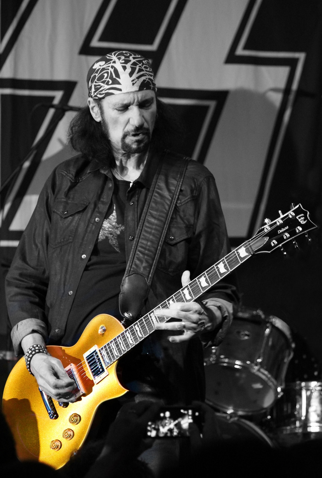 Guitarist Bruce Kulick of Kiss and Grand Funk Railroad Fame performing live in São Paulo, Brazil, February/2016 during a solo tour.